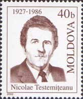 Nicolae Testemiţanu, Stamp of Moldova